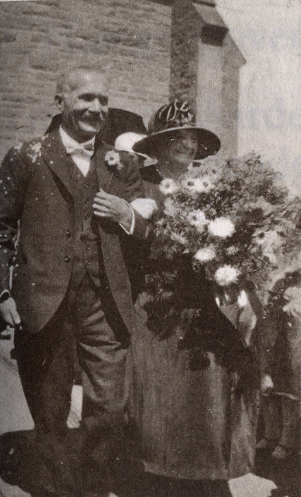 Afrikaans writer C. J. Langenhoven with his wife at the wedding of their daughter, Engela in 1926.